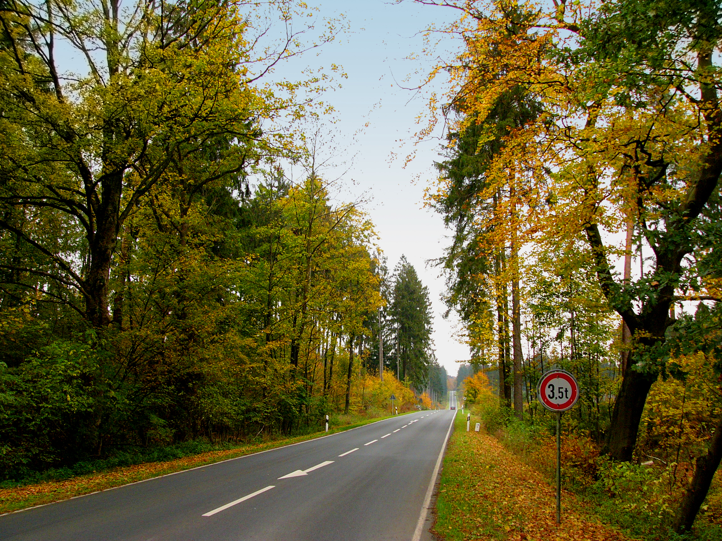 View to Gauseköte in Teutoburg Forest, Germany